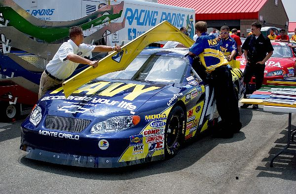 040429-N-6501M-001 Fontana, Calif. (Apr. 29, 2004) - NASCAR race officials use a template to measure the profile of the No. 14 Navy-sponsored Chevy Monte Carlo to verify that the car meets required specifications prior to qualifying for the Stater Bros. 300 race held at the California Speedway. The Navy sponsors the Fitz-Bradshaw owned car that runs in the NASCAR Busch Series for recruiting purposes. Atwood finished 29th in a field of 43 starting drivers. U.S. Navy photo by Chief Photographer's Mate Edward G. Martens. (RELEASED)